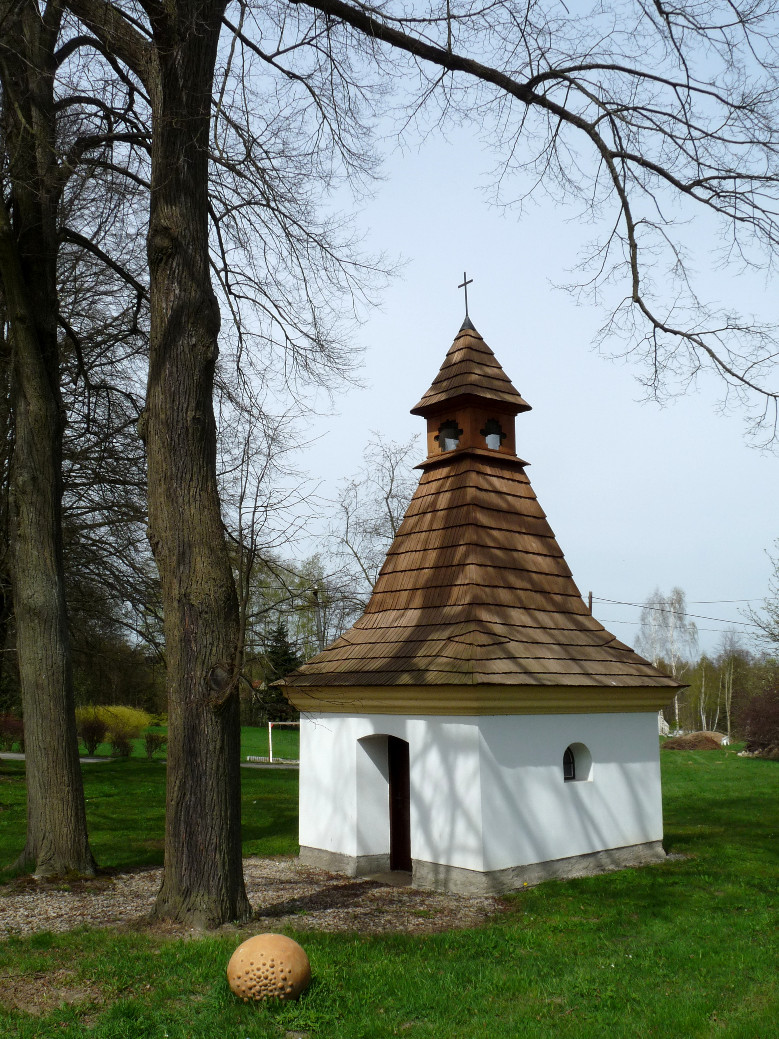 Chapel in the village of Leskovice, Pelhřimov District, Vysočina Region, Czech Republic.